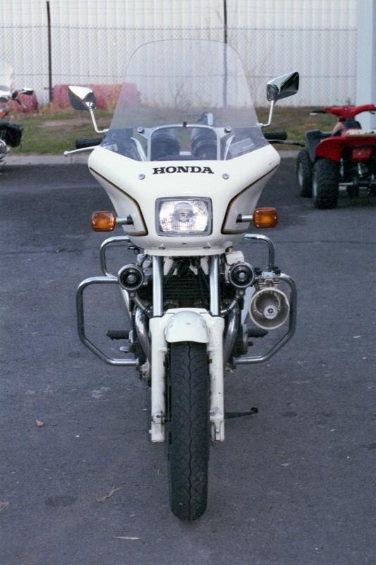 Honda CB750P (police)